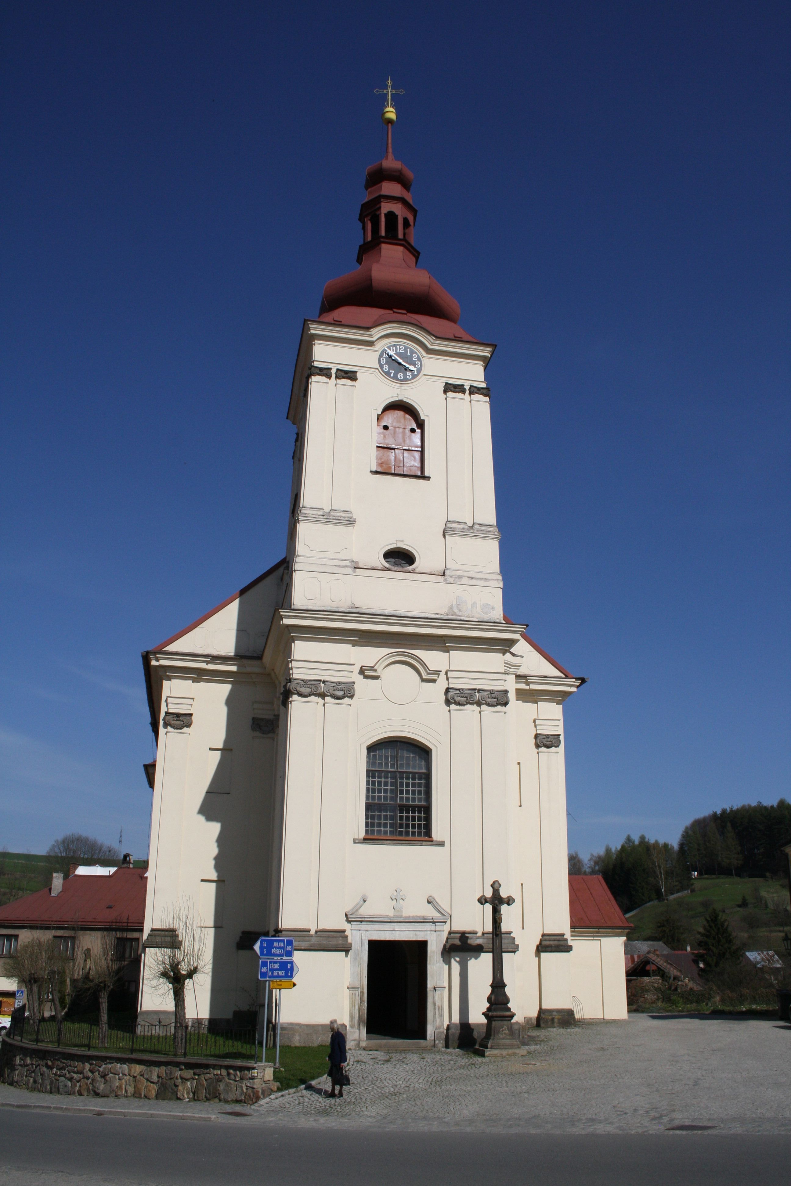 Front view of church of Saint James the Greater in Brtnice.